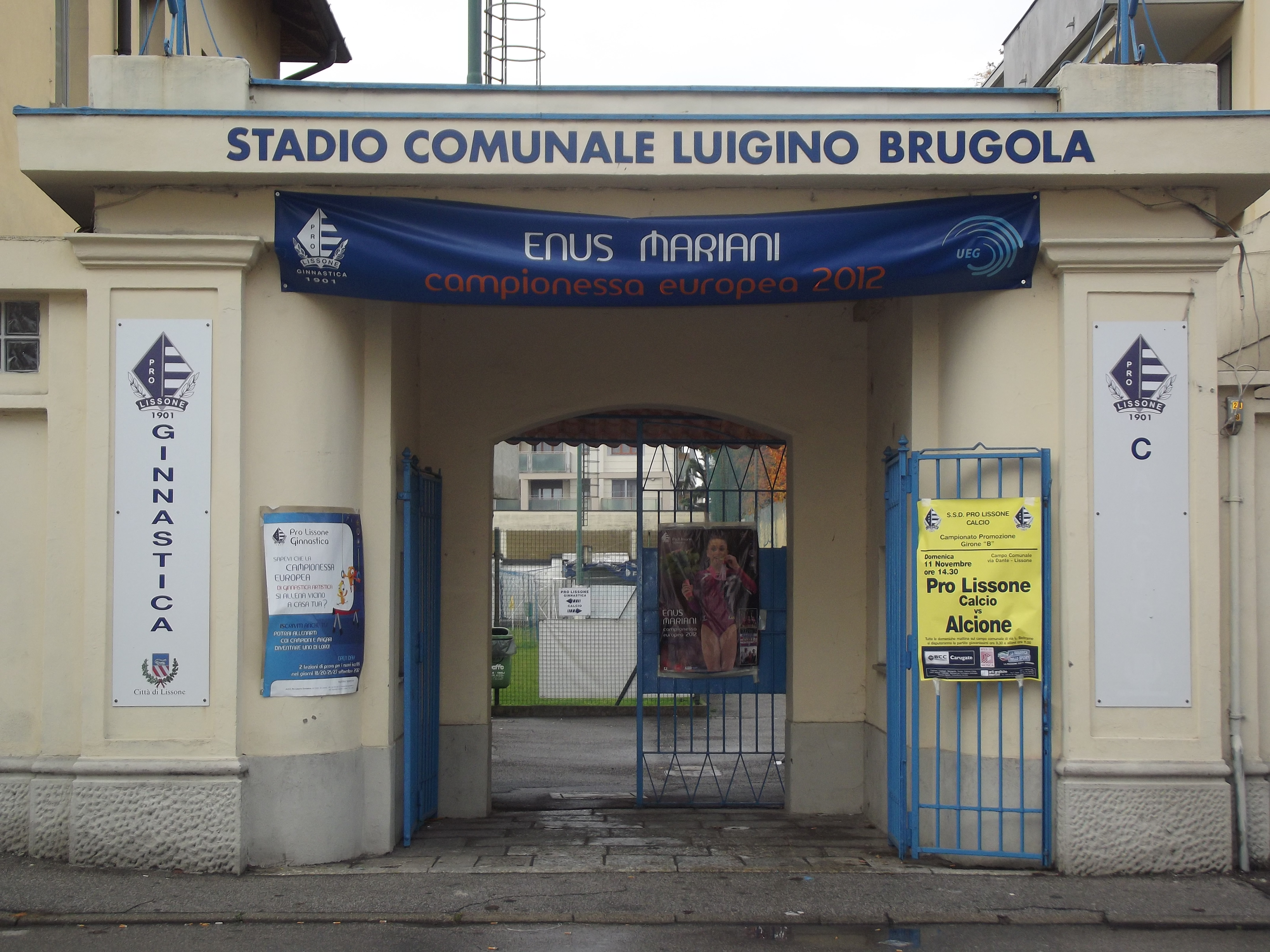 Stadio Brugola Lissone